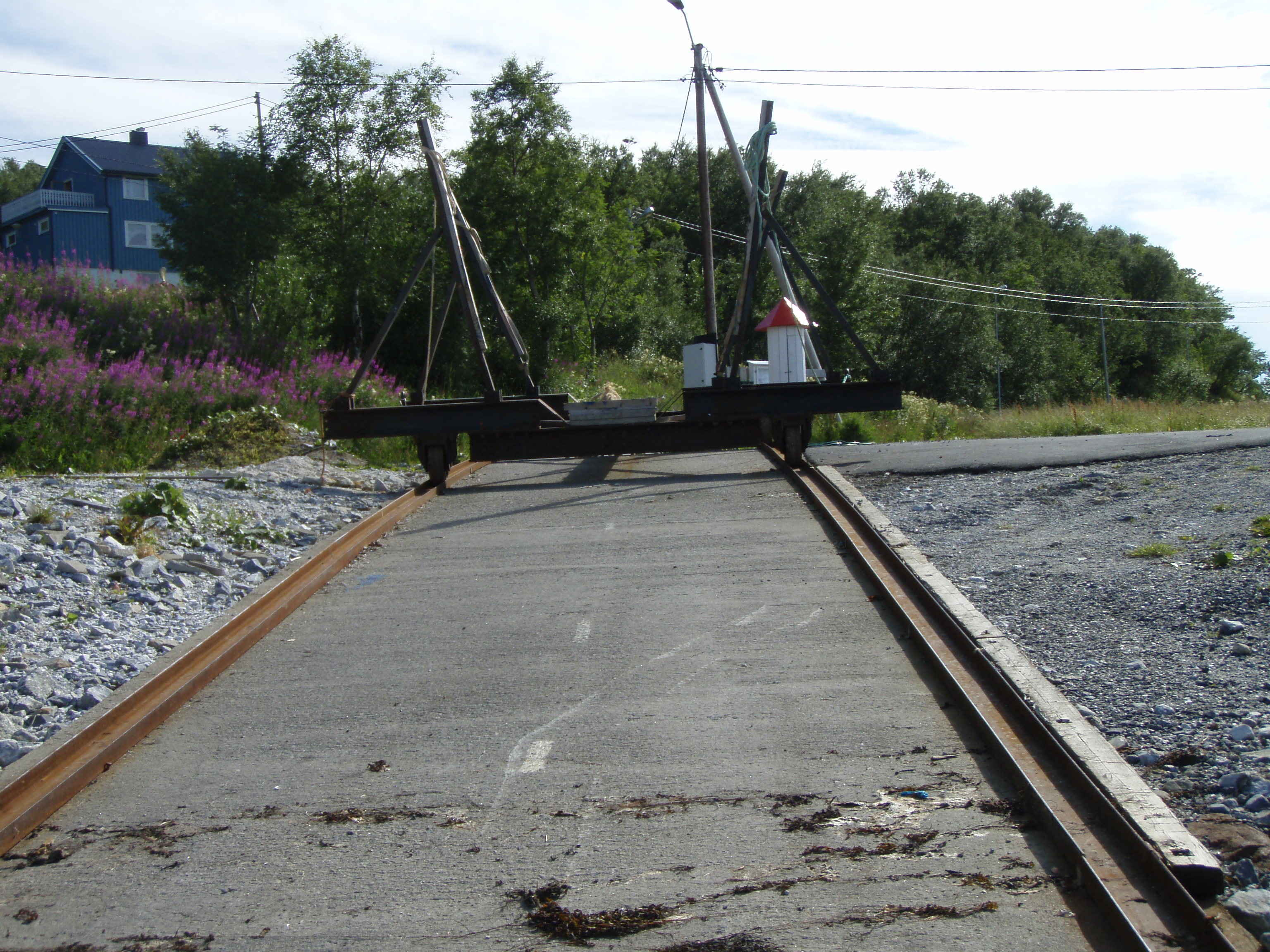 rails for taking boats ashore for maintenance and storage